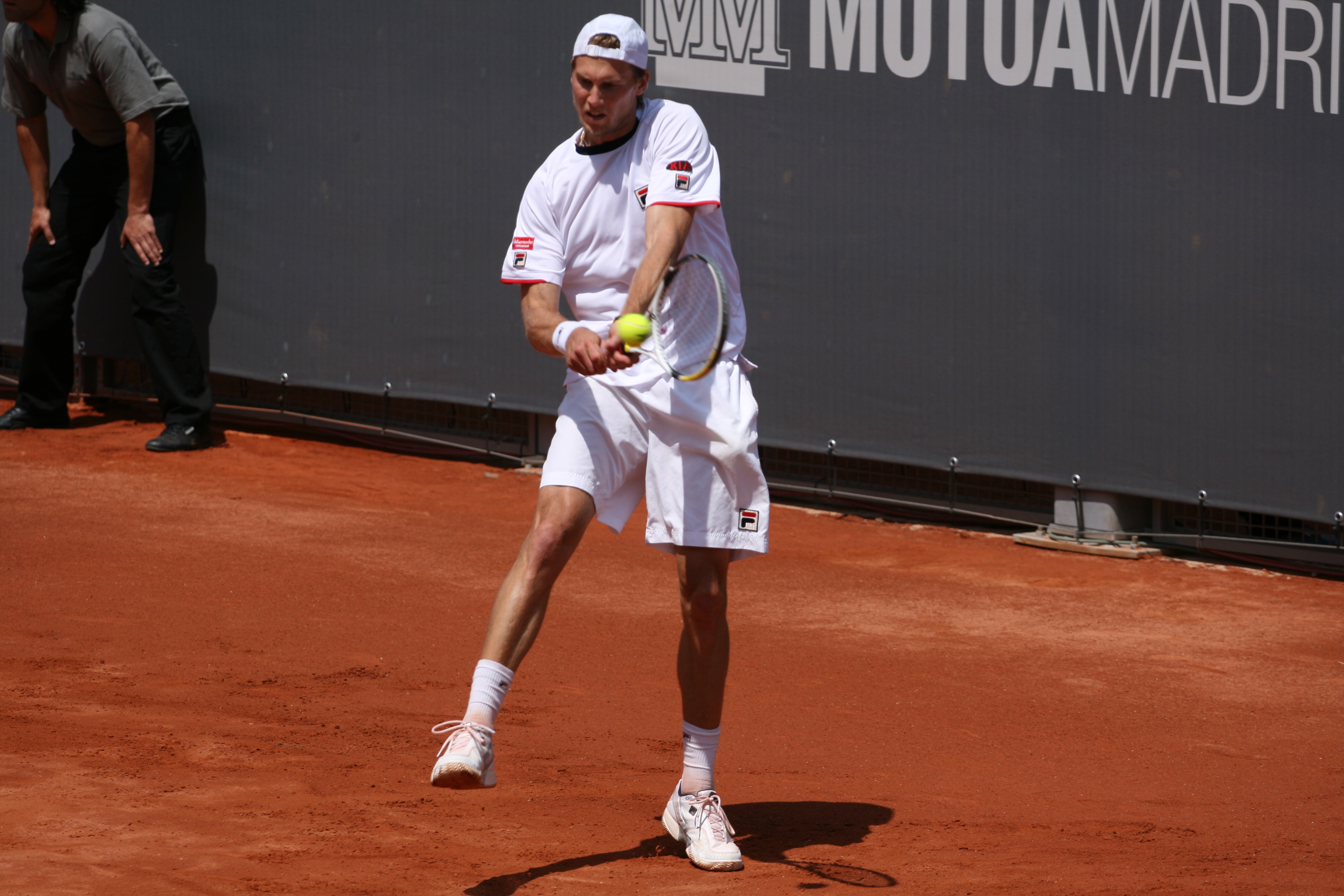 Andreas Seppi against Sam Querrey in the 2009 Mutua Madrileña Madrid Open second round